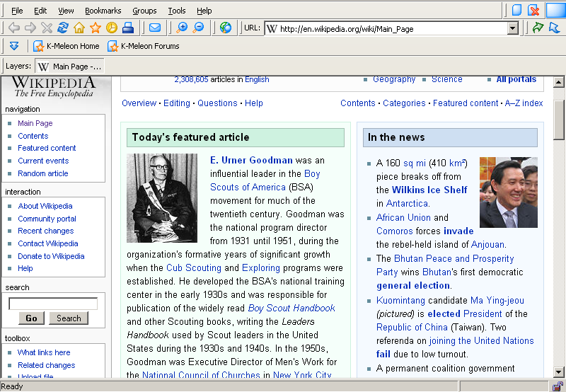 Screenshot of the English Wikipedia Main Page using K-Meleon 1.1.4